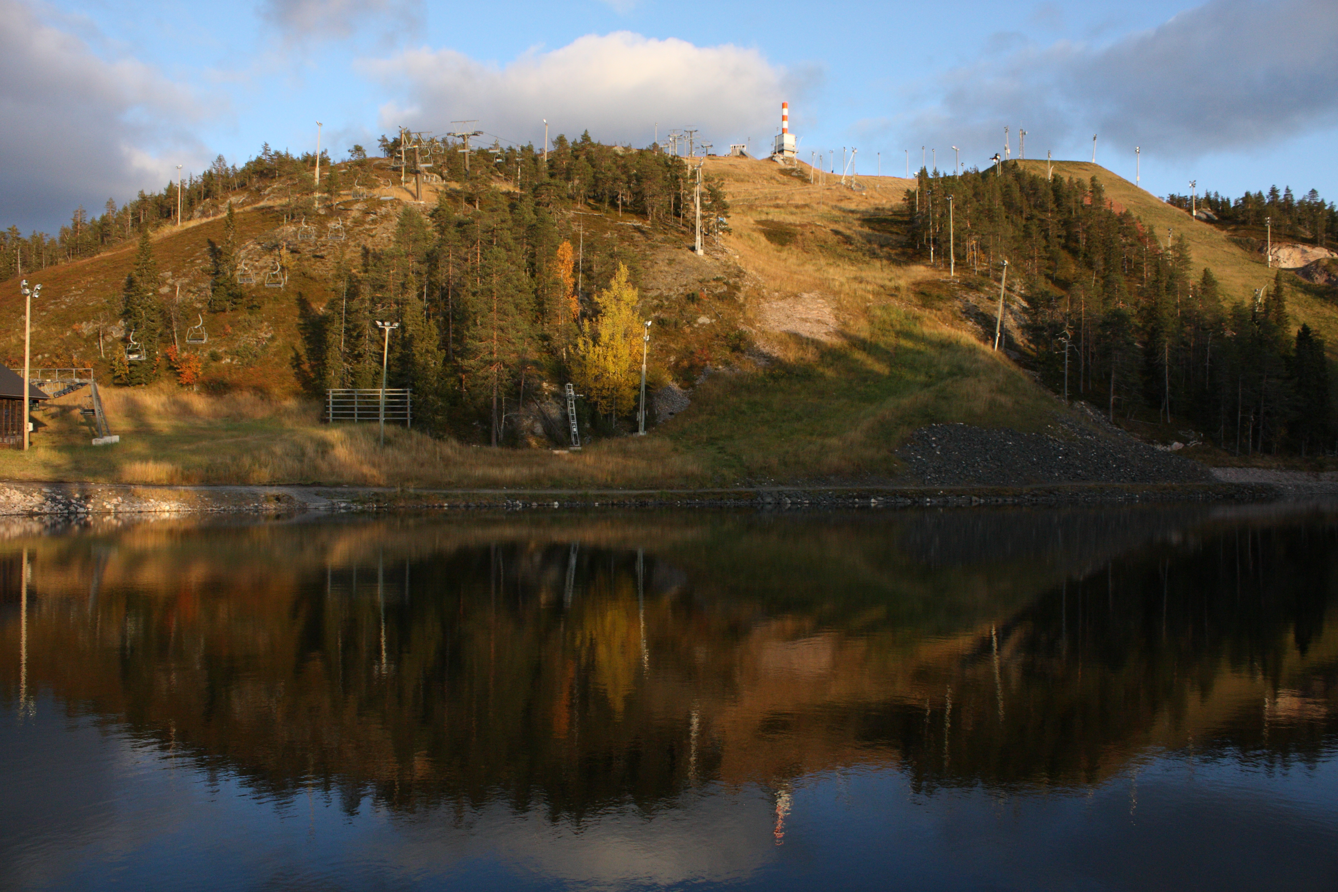 Ruka's front slopes without snow cover yet, Kuusamo, Finland.